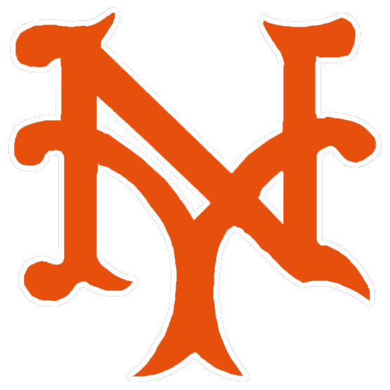 Logo of the San Francisco Giants.